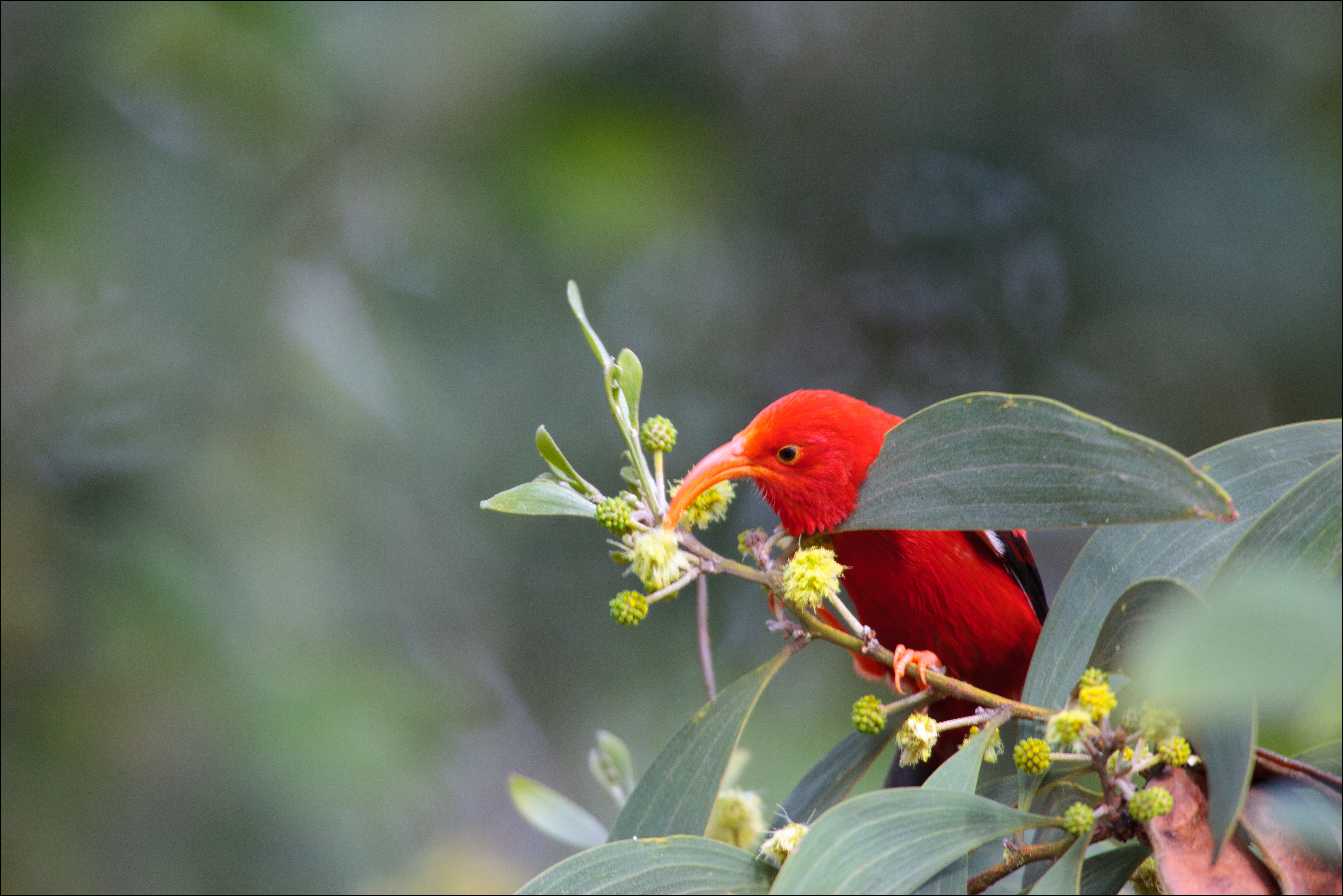 A ʻIʻiwi or Scarlet Hawaiian Honeycreeper in Hawaii, USA.